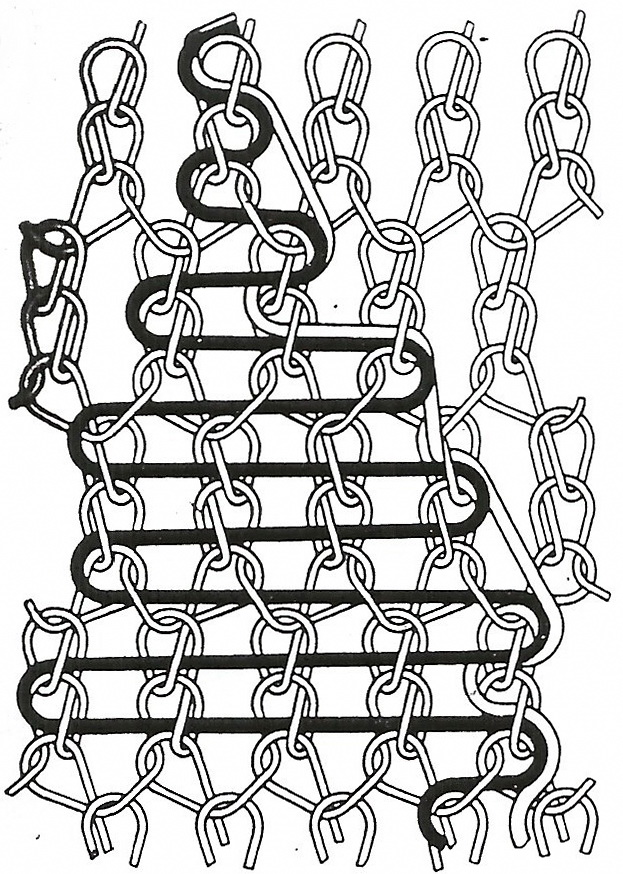 Principal structure of a Raschel-lace